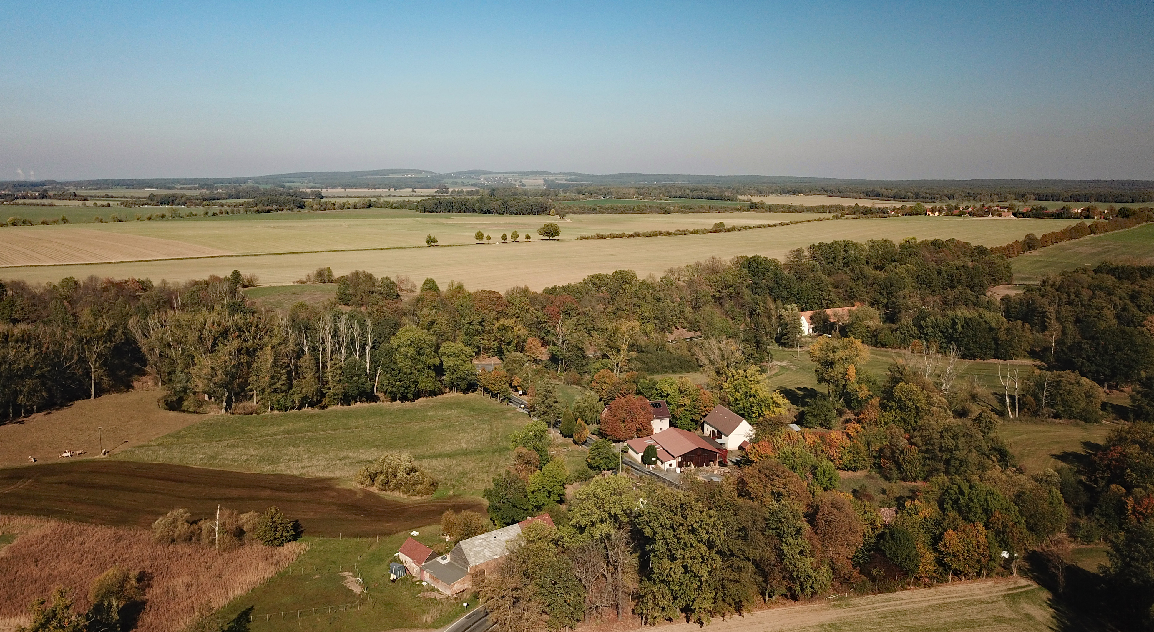 Wasserkretscham (Weißenberg, Saxony, Germany) Hornjoserbsce: Powětrowy wobraz Wodoweje korčmy pola Wósporka